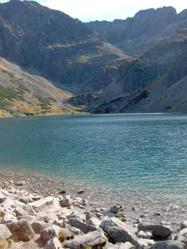 Black Lake, Zakopane, Poland